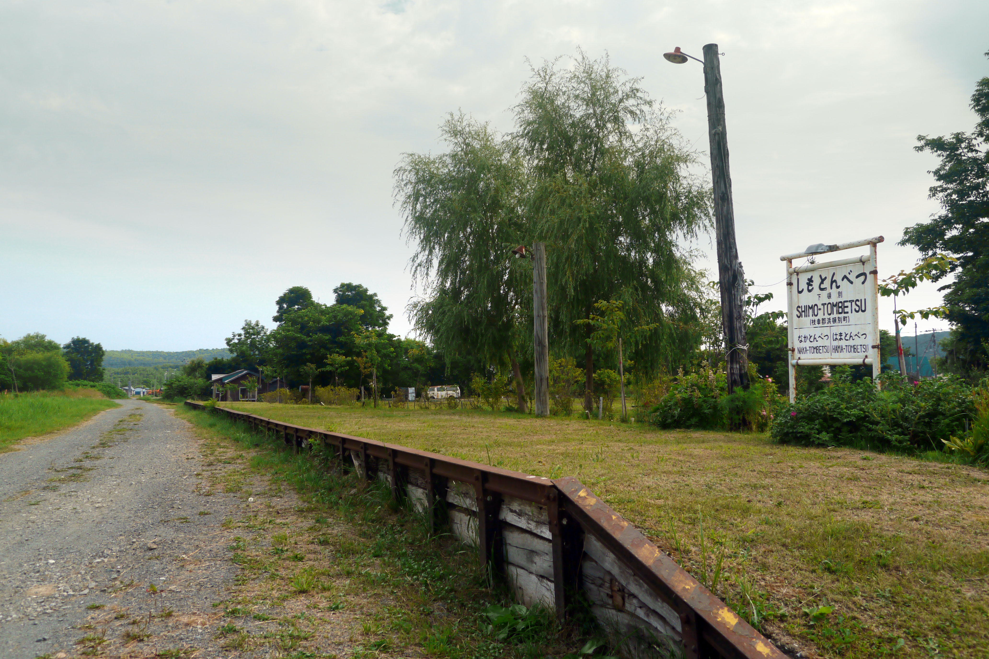 Remains of Shimotonbetsu Station of the Tenpoku Line in Hokkaido, Japan. Photo taken on August 5, 2011.